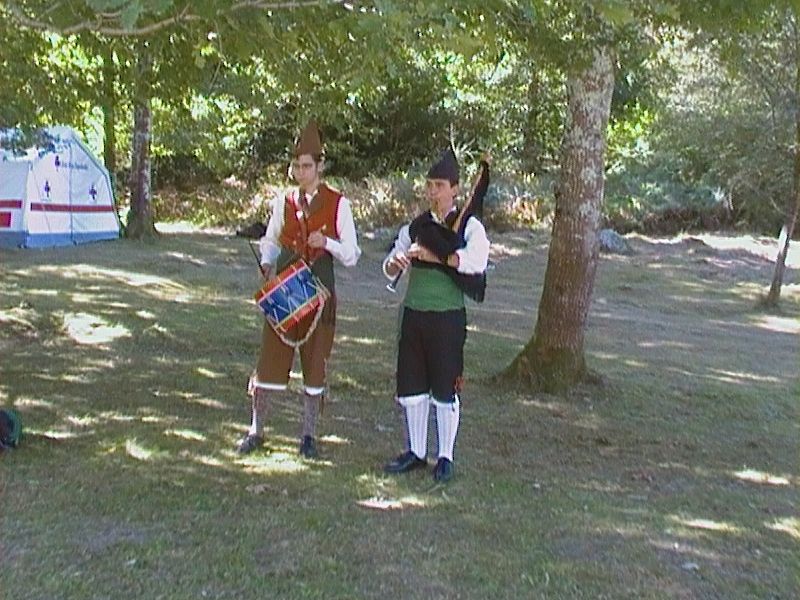 Pareya de gaiteru y tamboriteru salíos de la Escuela de Música Tradicional de l'Asociación de la Canción y el Folclor Valle del Nalón